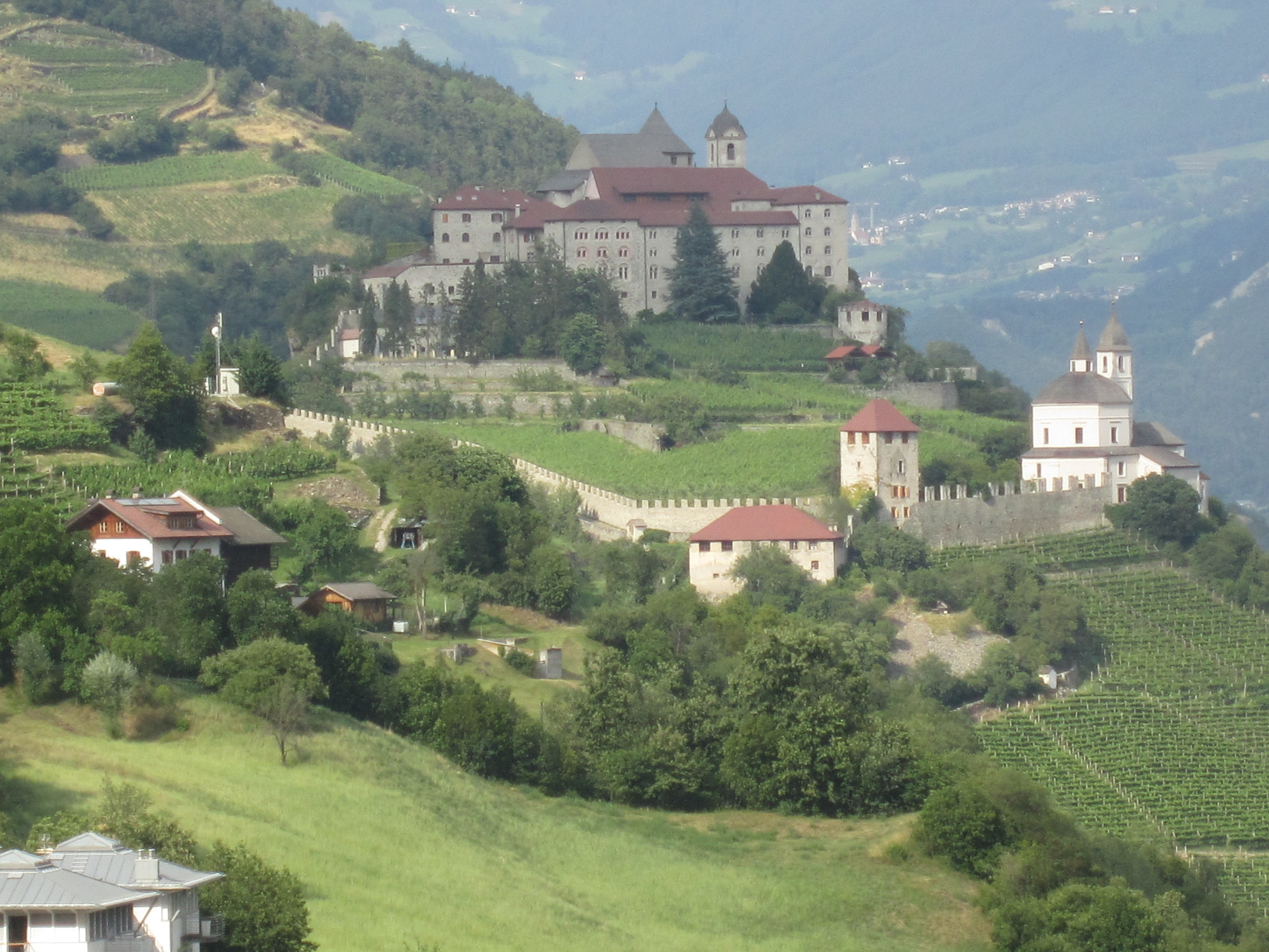 Säben Convent, viewed from southern direction